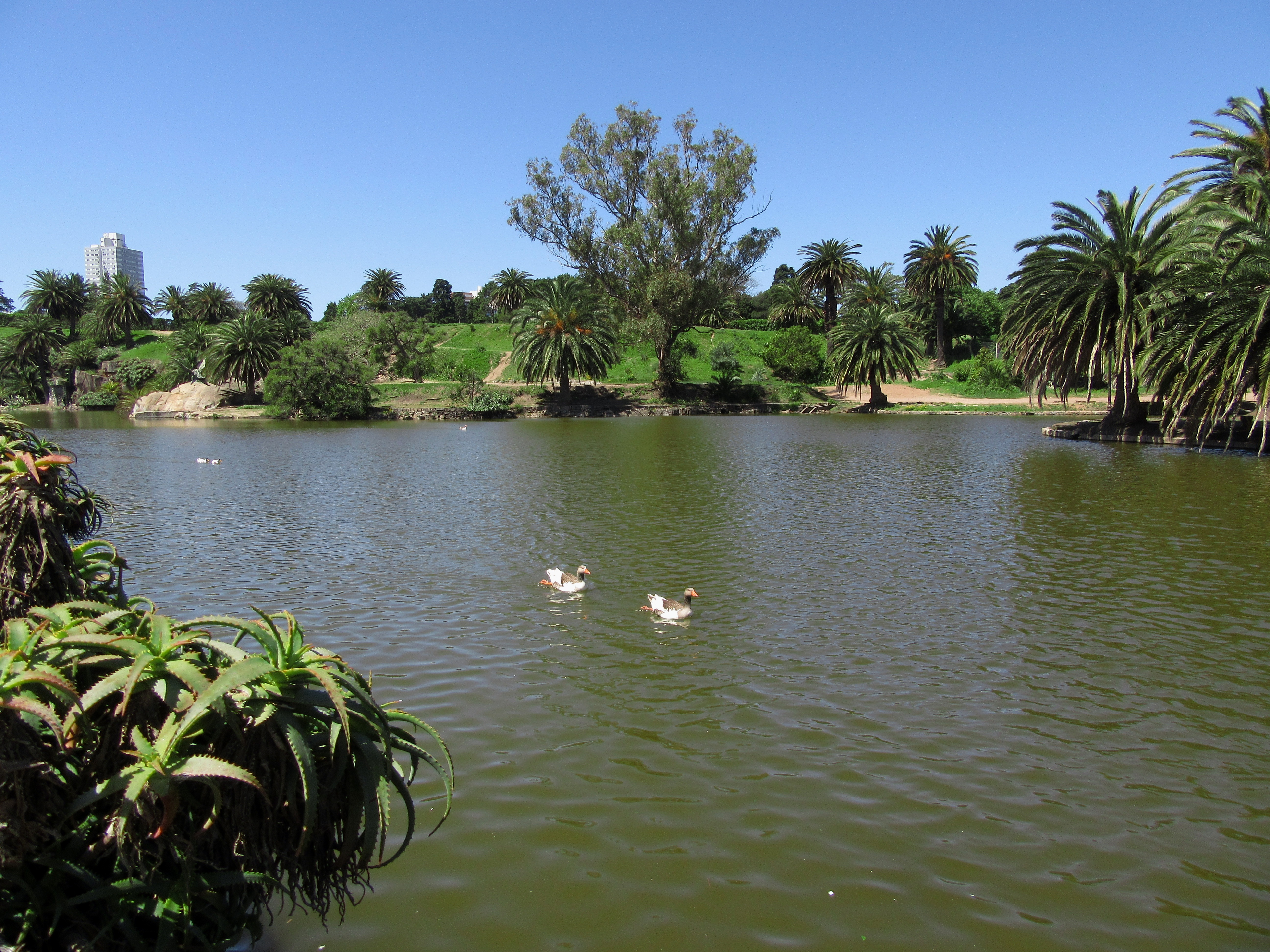 Montevideo